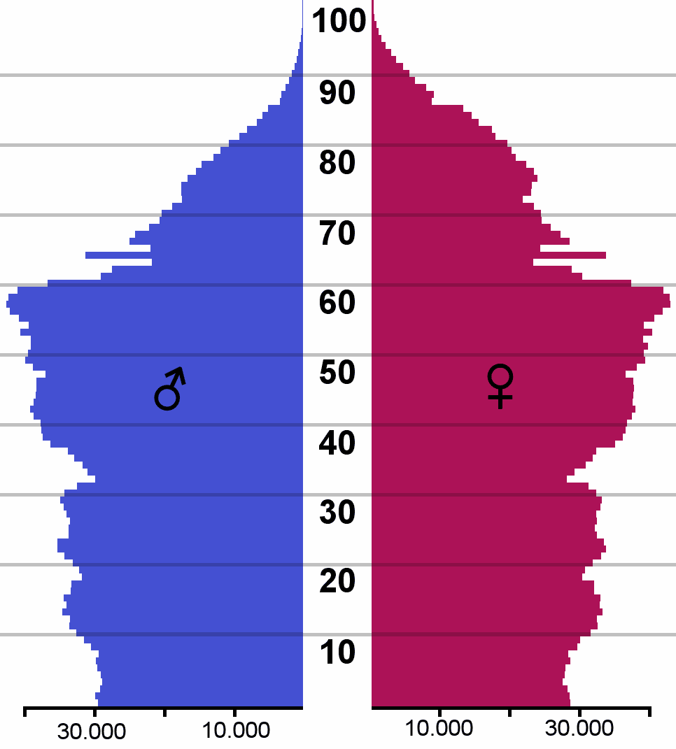 Population pyramid of Finland (2005)